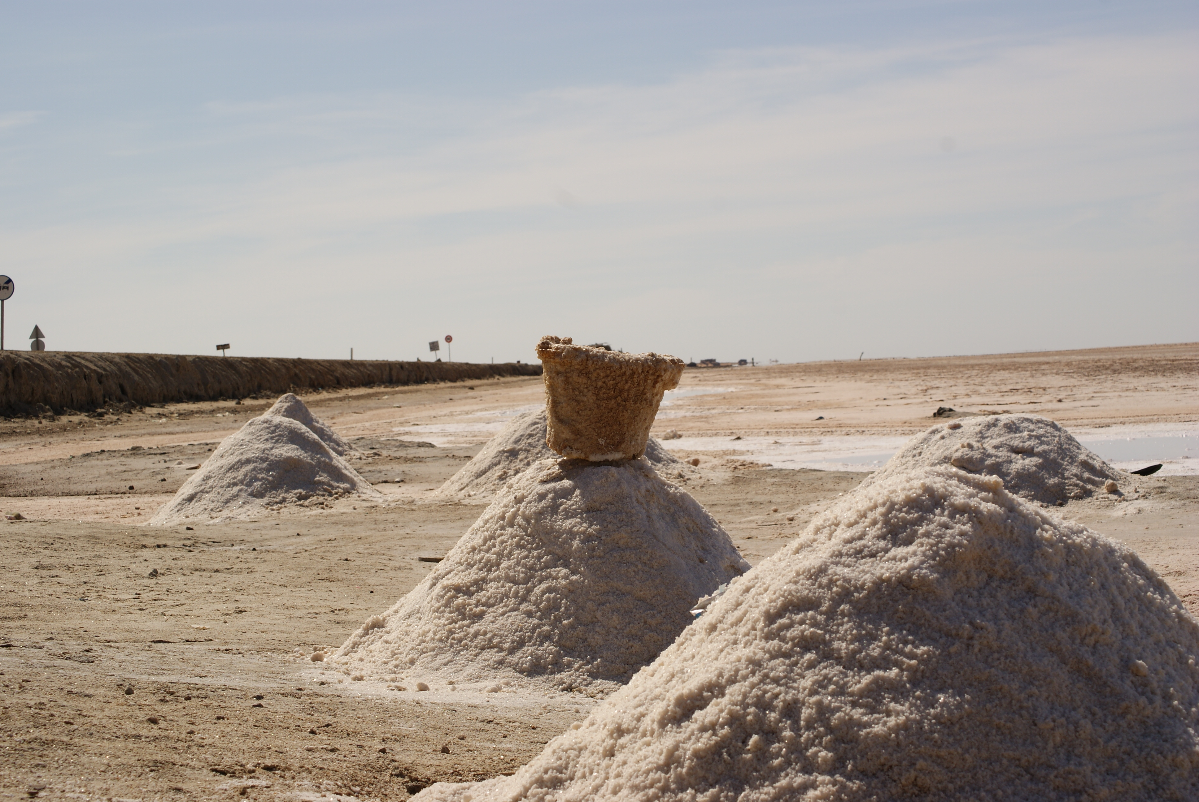 Small salt pile on the surface of the Chott, ready to be recolt